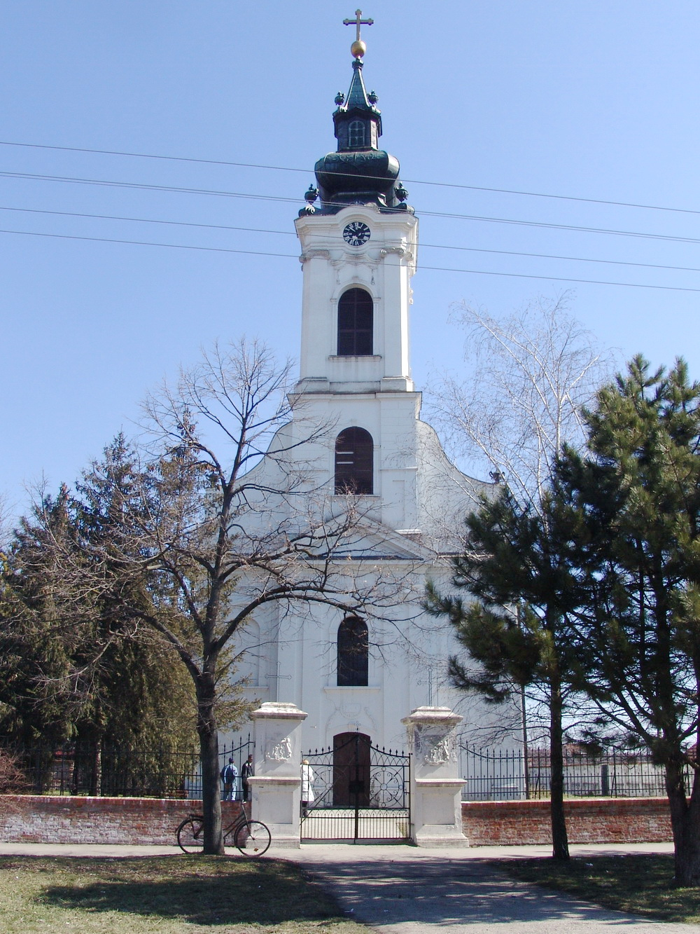 Serbian Orthodox church in Elemir